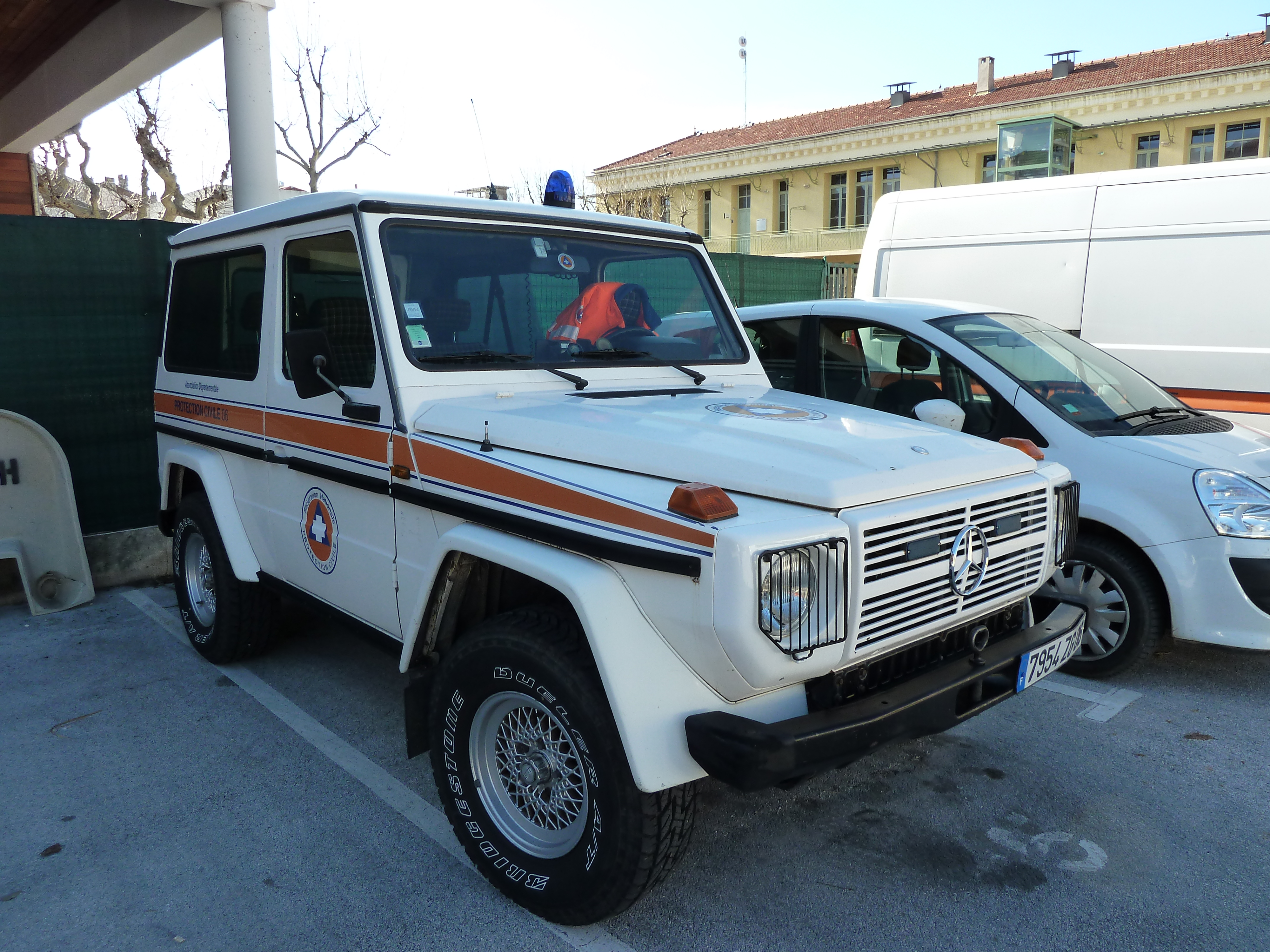 Vehicle of french civil protection in Alpes-Maritimes